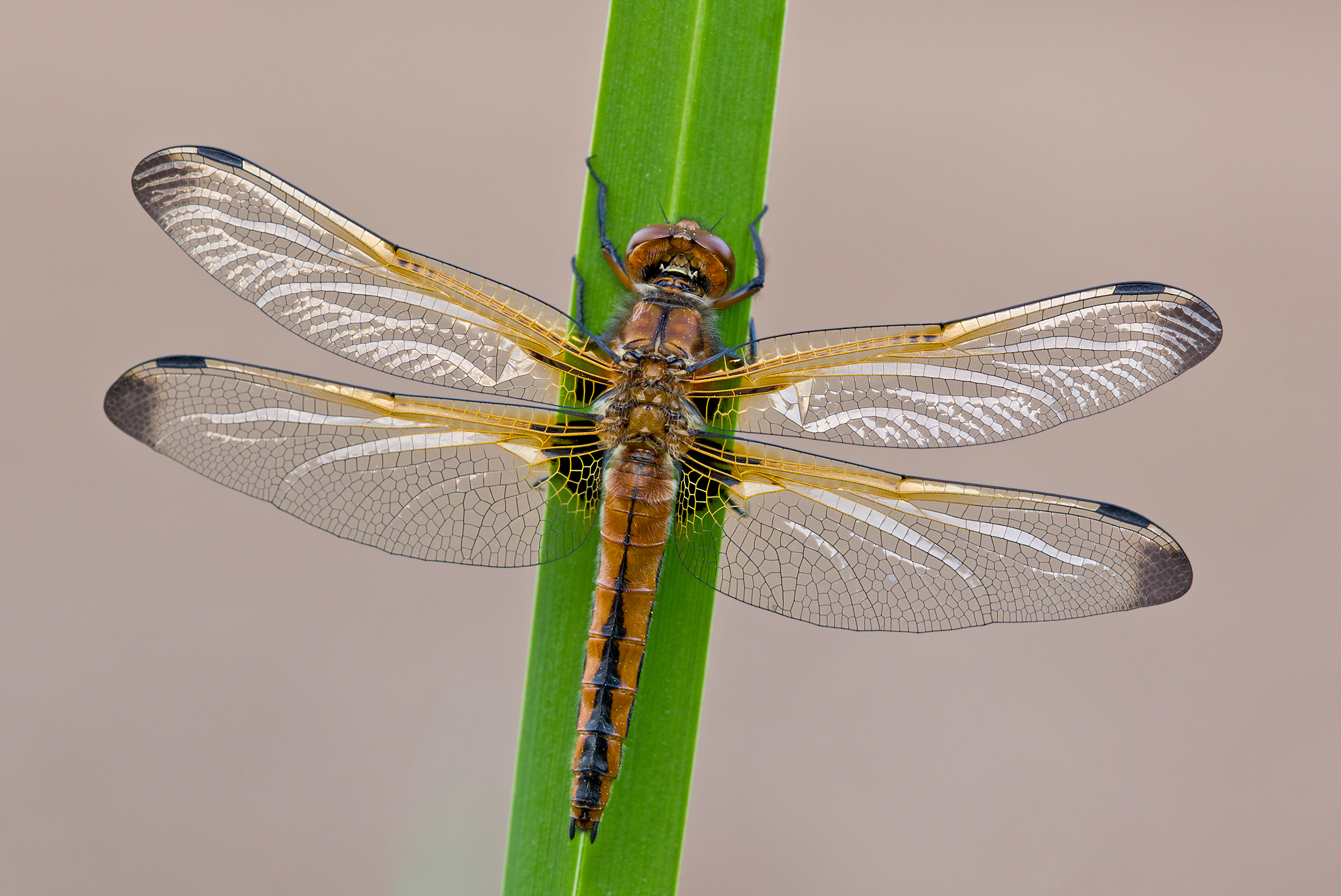 A young, immature female Scarce Chaser (Libellula fulva). The eponymous spotting of the wing-tips is clearly visible.